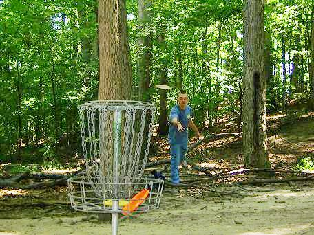 Disc golfer putting for birdie at Cass Benton Disc Golf Course, Northville, Michigan.